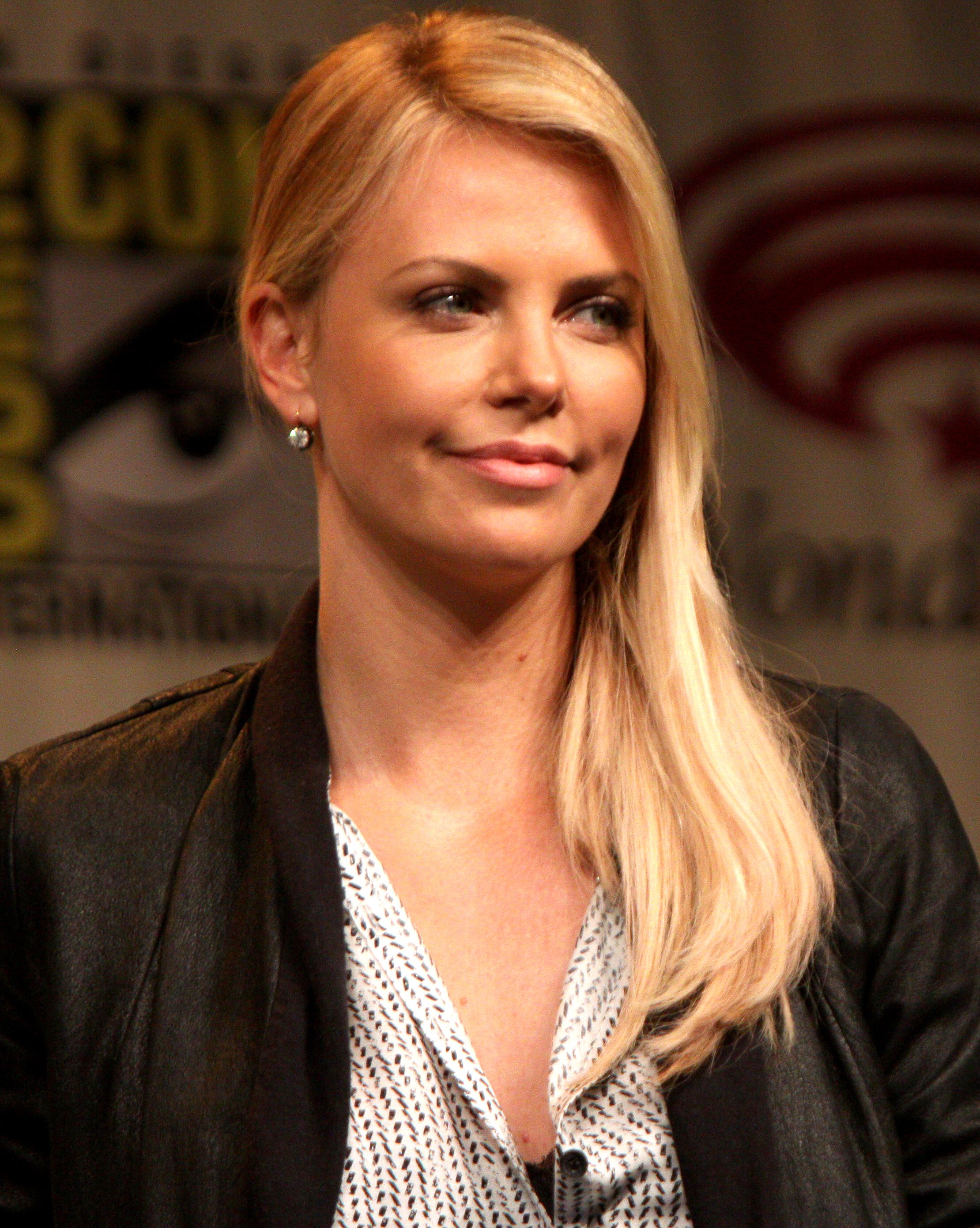 Charlize Theron speaking at the 2012 WonderCon in Anaheim, California.